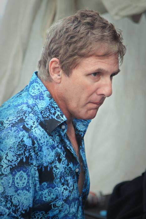 Richards Grossman in Rottnest Island